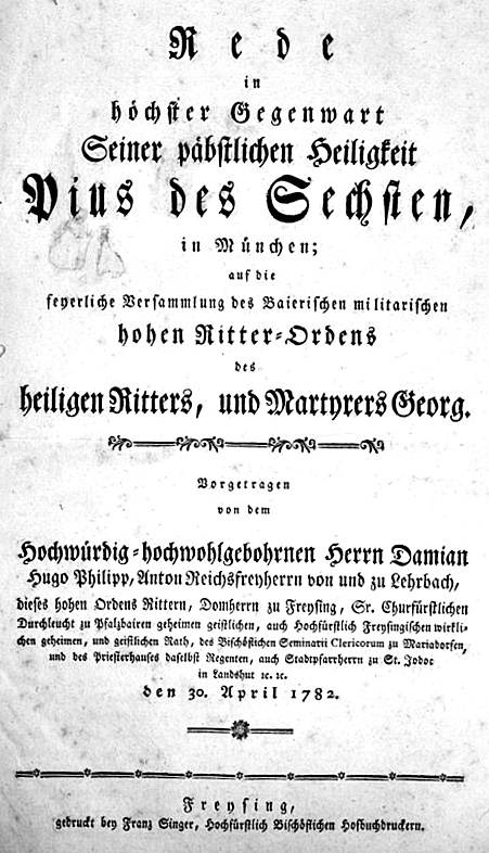 Damian Hugo Philipp von Lehrbach (1738-1815), Reichsgraf, Jesuit, Freisinger Domherr und Wohltäter der kath. Kirche in Speyer und Mainz; Titelblatt einer Predigt, gehalten 1782 vor Papst Pius VI.